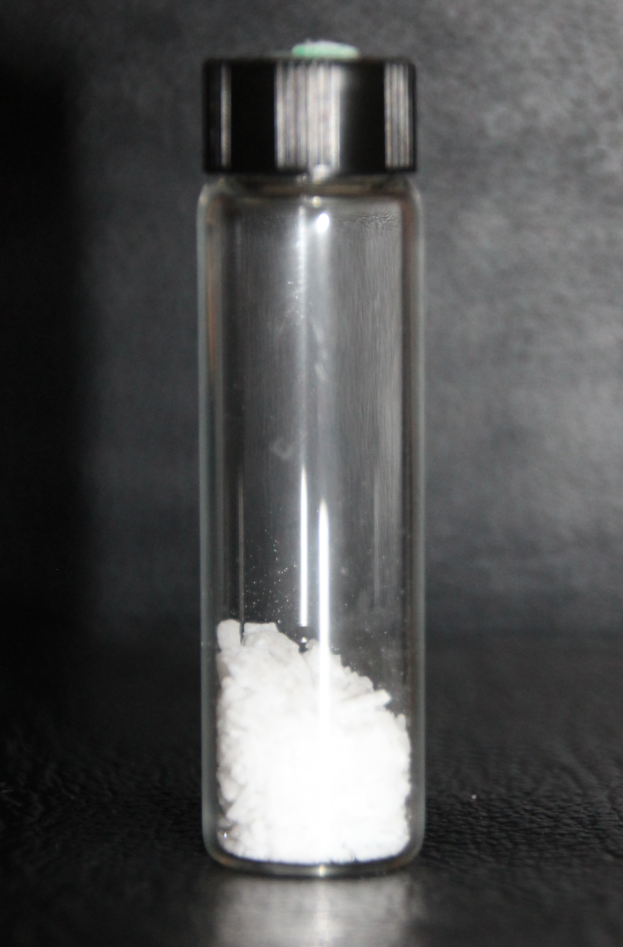 Sample of maleic acid